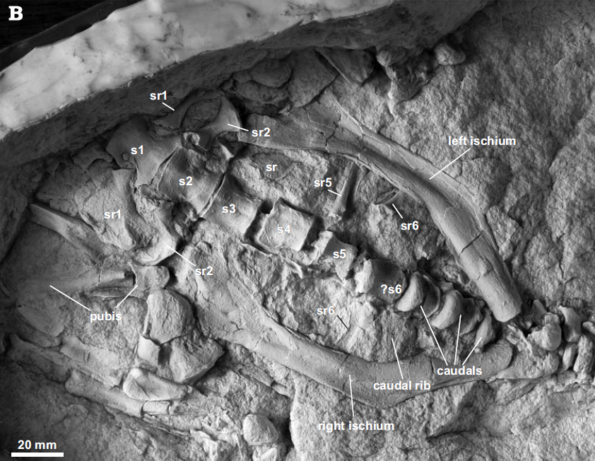 Ornithischian dinosaur Stenopelix valdensis Meyer, 1857, holotype (GZG 741/2, formerly GPI Gö 741−2), from the Obernkirchen Sandstone (Early Cretaceous: Berriasian), near Bückeburg, Niedersachsen, Germany. Latex casts of sacral region. A. Large slab, dorsal view. B. Small slab, ventral view. Ab− breviations: na, neural arches and spines; s1, s2, s3, s4, s5, sacral centra; ?s6, possible 6th sacral centrum (may instead represent first caudal centrum); sr, sr1, sr2, sr5, sacral ribs; sr6, possible 6th sacral rib (may instead represent first caudal rib).